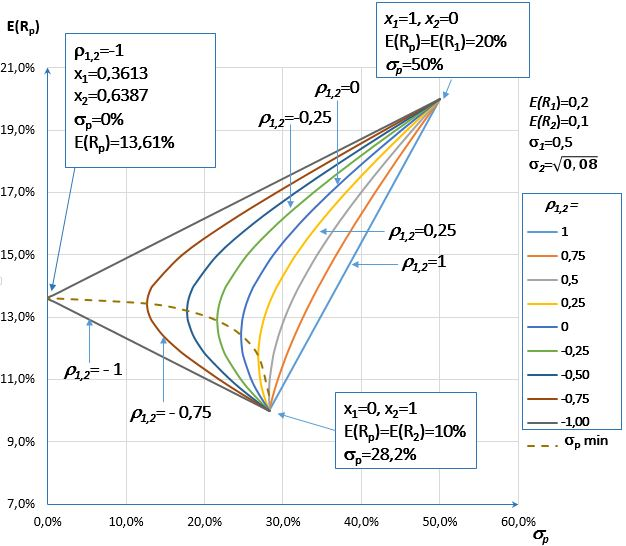 Worked example of a two-asset portfolio with constant expected returns and risks and varrying correlation coefficients and weights, necessary to reflect the feasible set and the Markowitz frontier. Portfolios above dotted line represent dominant portfolios for that specific correlation coefficient - based on formulas in Teoria modernă a portofoliilor#Portofoliu eficient. Own work